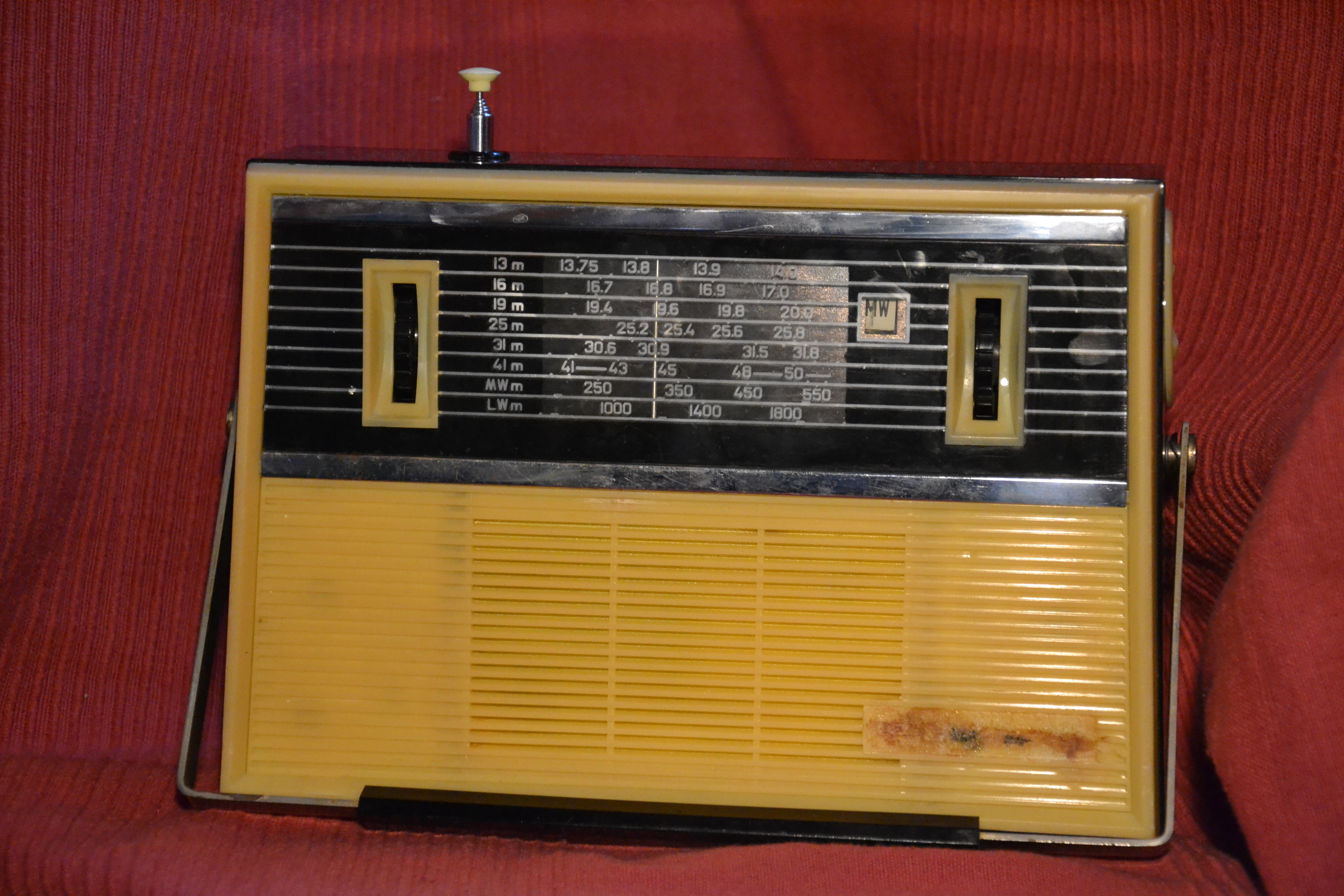 "VEF-Transistor 10" portable radio receiver, USSR,1964